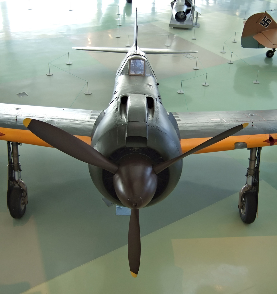 Front view of Ki-100 (五式戦闘機), one of the japanese army's fighter aircrafts in WW2, displayed in the RAF Museum at Hendon, London.